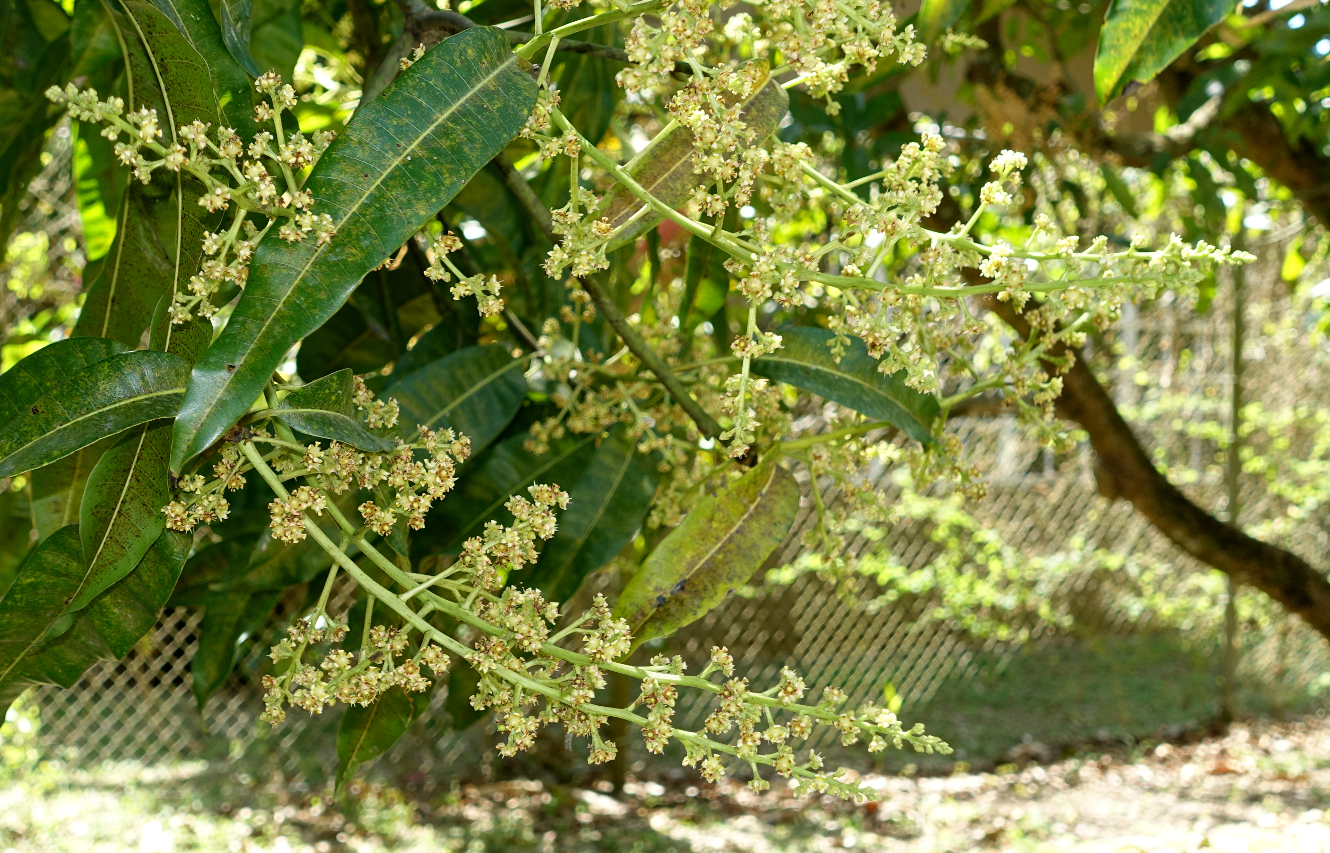 Plant specimen in the Fruit and Spice Park - Homestead, Florida, USA.